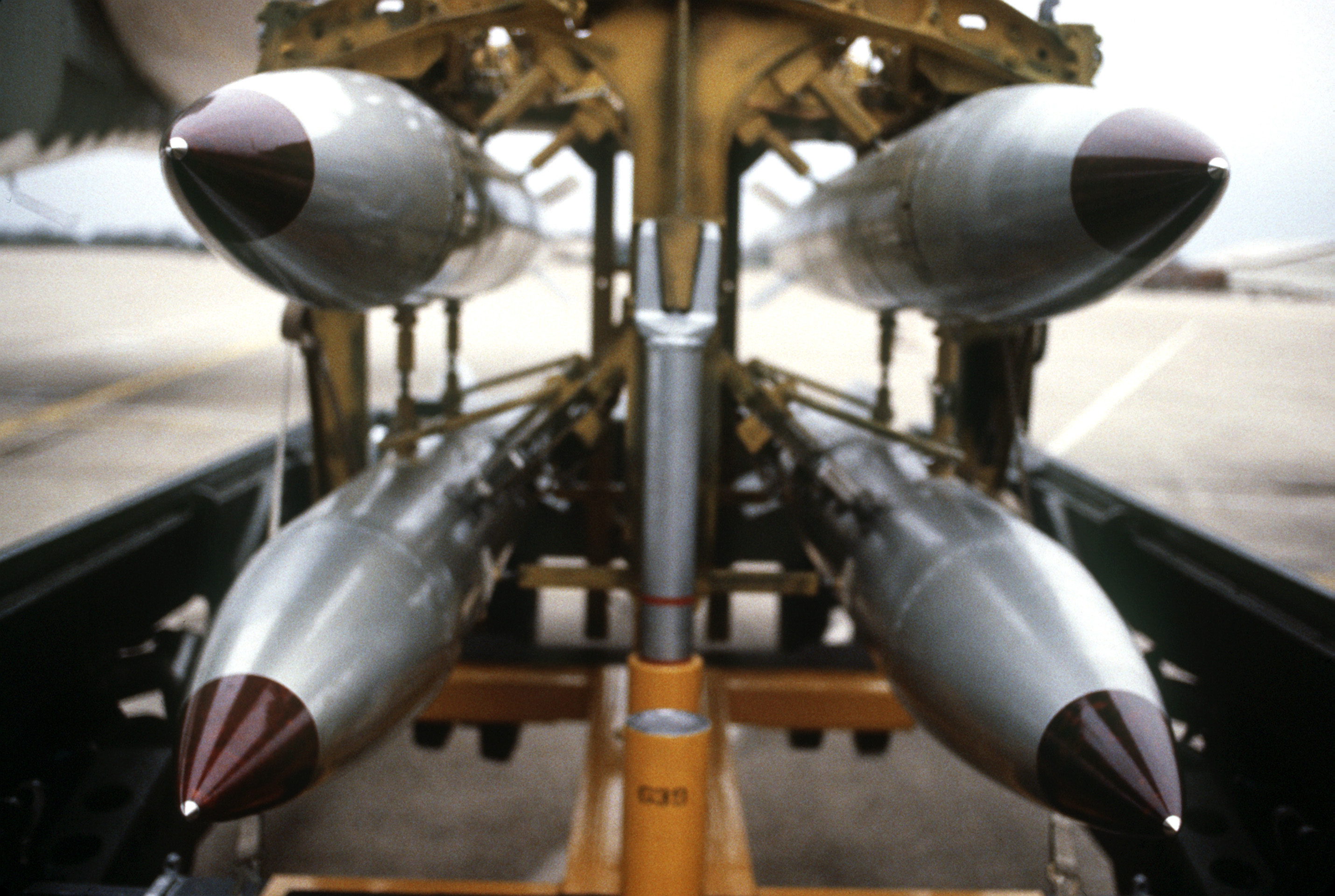 "A frontal view of four B-61 nuclear free-fall bombs on a bomb cart. (Released to Public) Location: BARKSDALE AIR FORCE BASE, LOUISIANA (LA) UNITED STATES OF AMERICA (USA) DoD photo by: SSGT PHIL SCHMITTEN Date Shot: 1 Dec 1986". B-61 bombs (probably trainers).